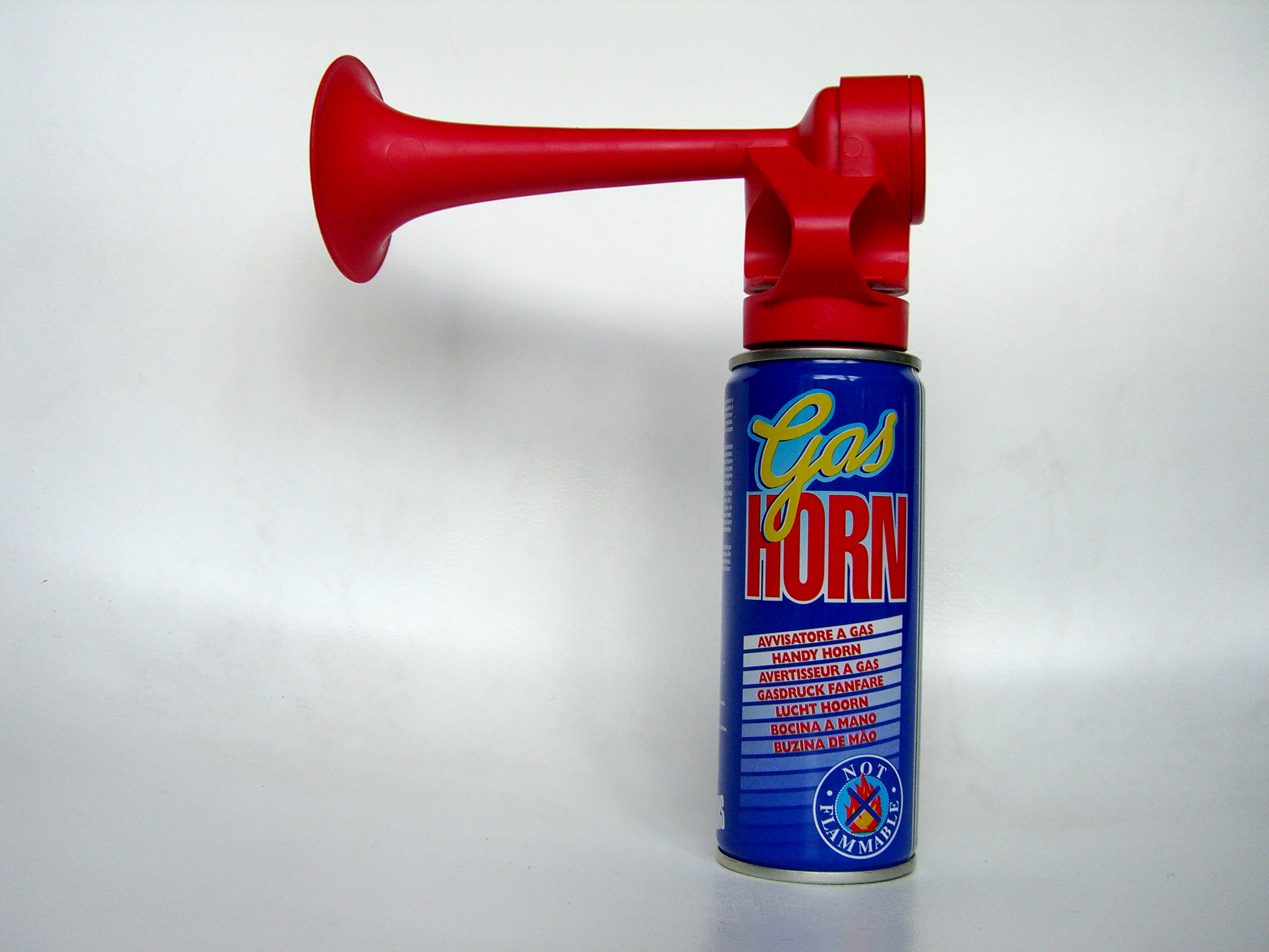 Air horn powered by pressurized air in can, from Italy. When the valve on the top is pressed, air from the can flows past a reed in the throat of the horn, causing it to vibrate, generating a loud note. Gas air horns like this are used as foghorns in small boats, and bicycle horns.